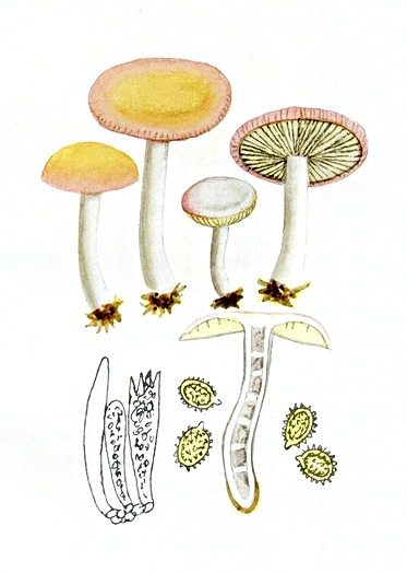 Gruppo Micologico «G. Bresadola»: "Iconographia Mycologica" Russula xerampelina var. elaeodes syn. R. clavipes; Copyright © 2001-2012 Gruppo Micologico «G. Bresadola» online (This site is hosted by the server of the Science Museum.)